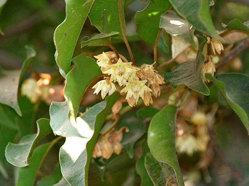 Mimusops elengi- Maulsari, Bakul, Indian medlar, Spanish Cherry, Bulletwood, Pagade tree's or Borsalli near Hyderabad, India.